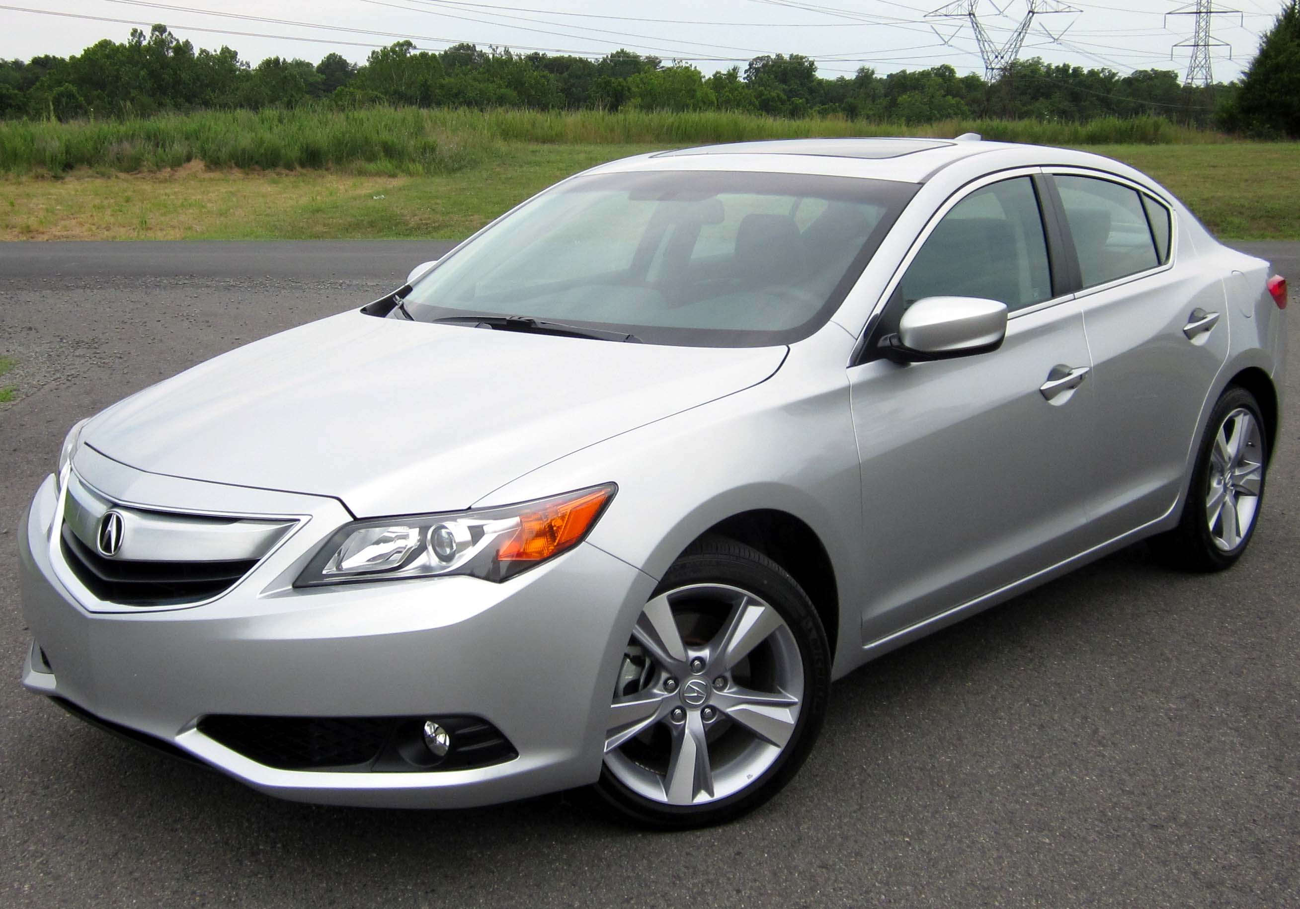 2013 Acura ILX photographed in Chantilly, Virginia, USA.